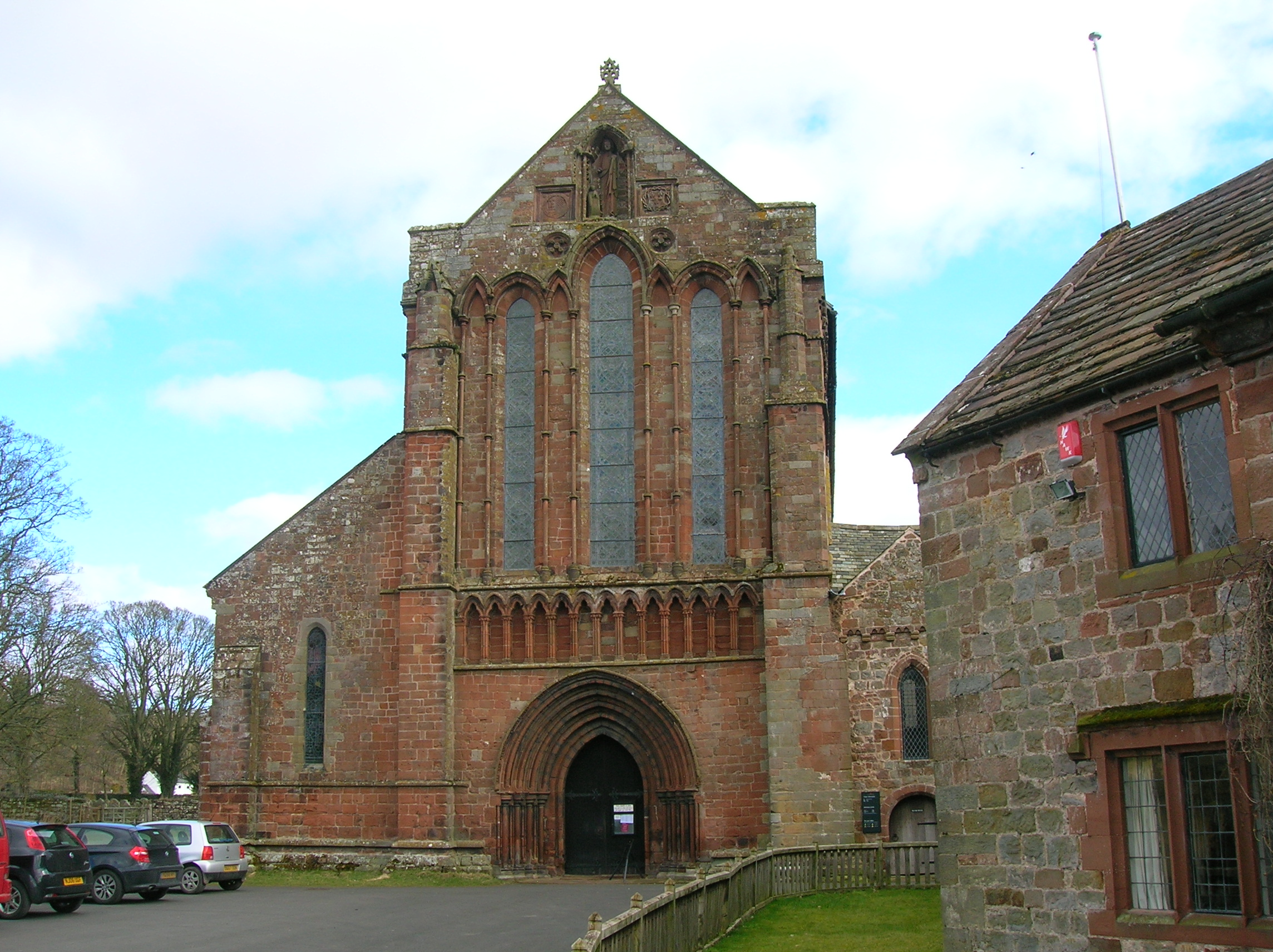 Lanercost Priory, West Front, Lanercost, near Brampton, Cumbria, England.